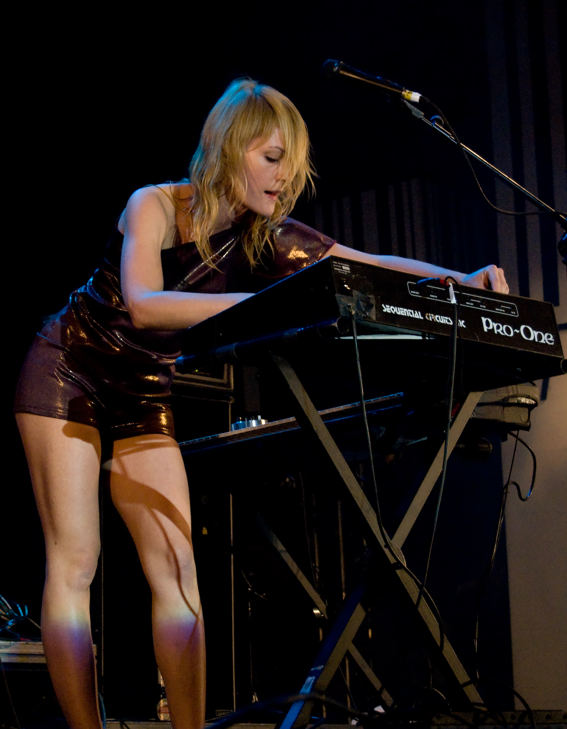 Emily Haines live at Sao Paulo, BR (2008)